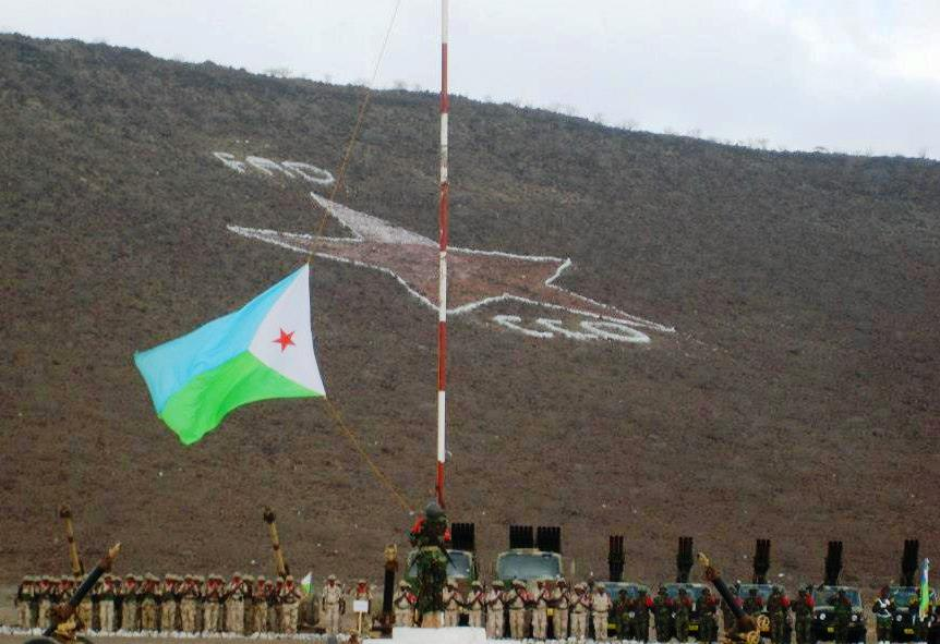 Camp Maryama during an exercise, Arta Region, Djibouti.